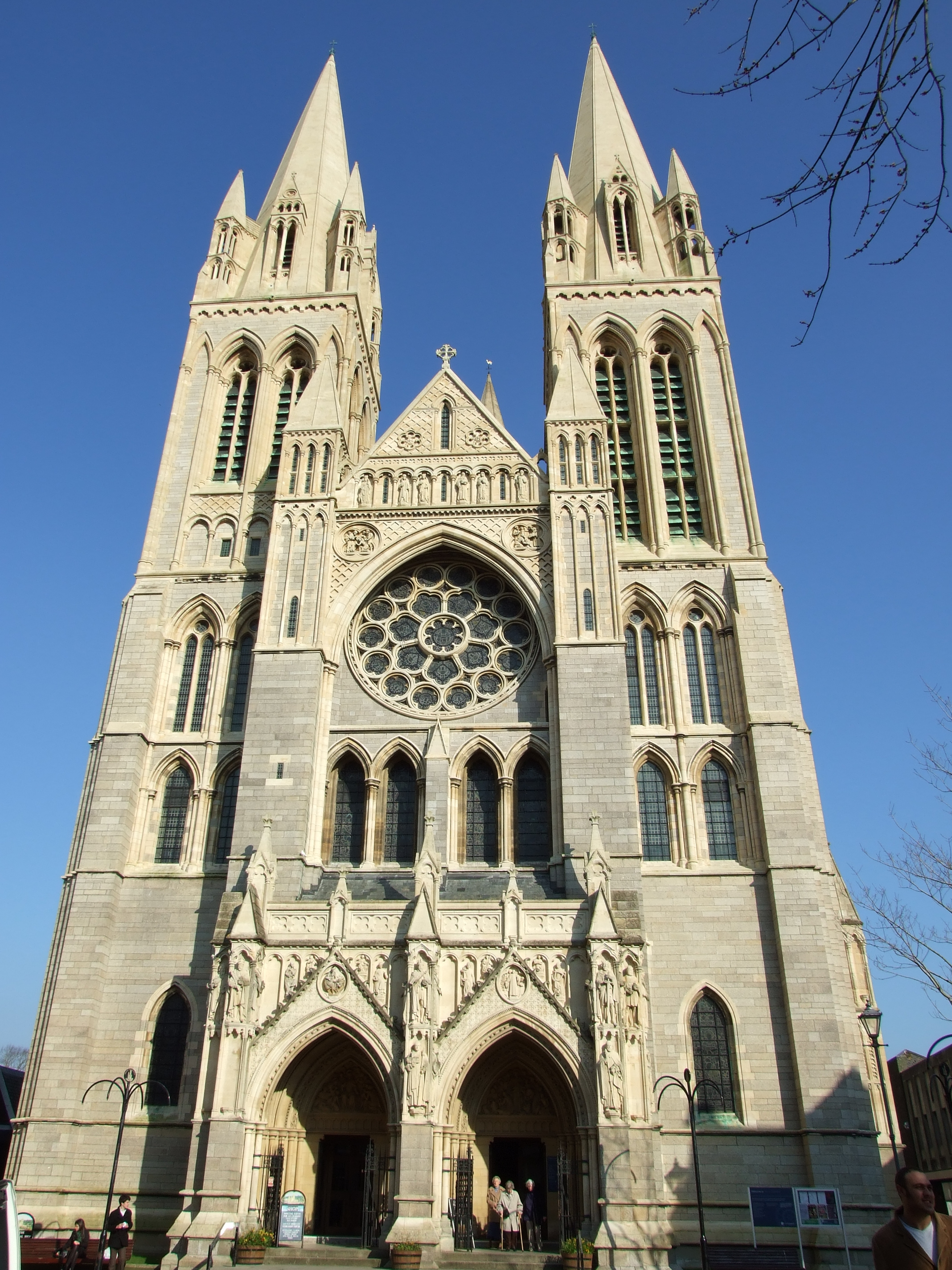 Looking up at Truro Cathedral from High Cross, Truro, Cornwall, UK.